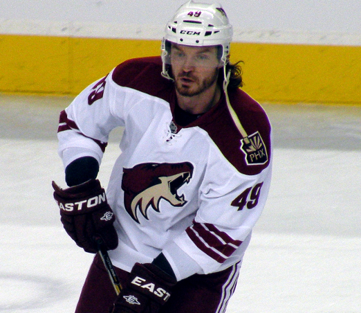 Phoenix Coyotes forward Alexandre Bolduc prior to a National Hockey League game against the Calgary Flames.